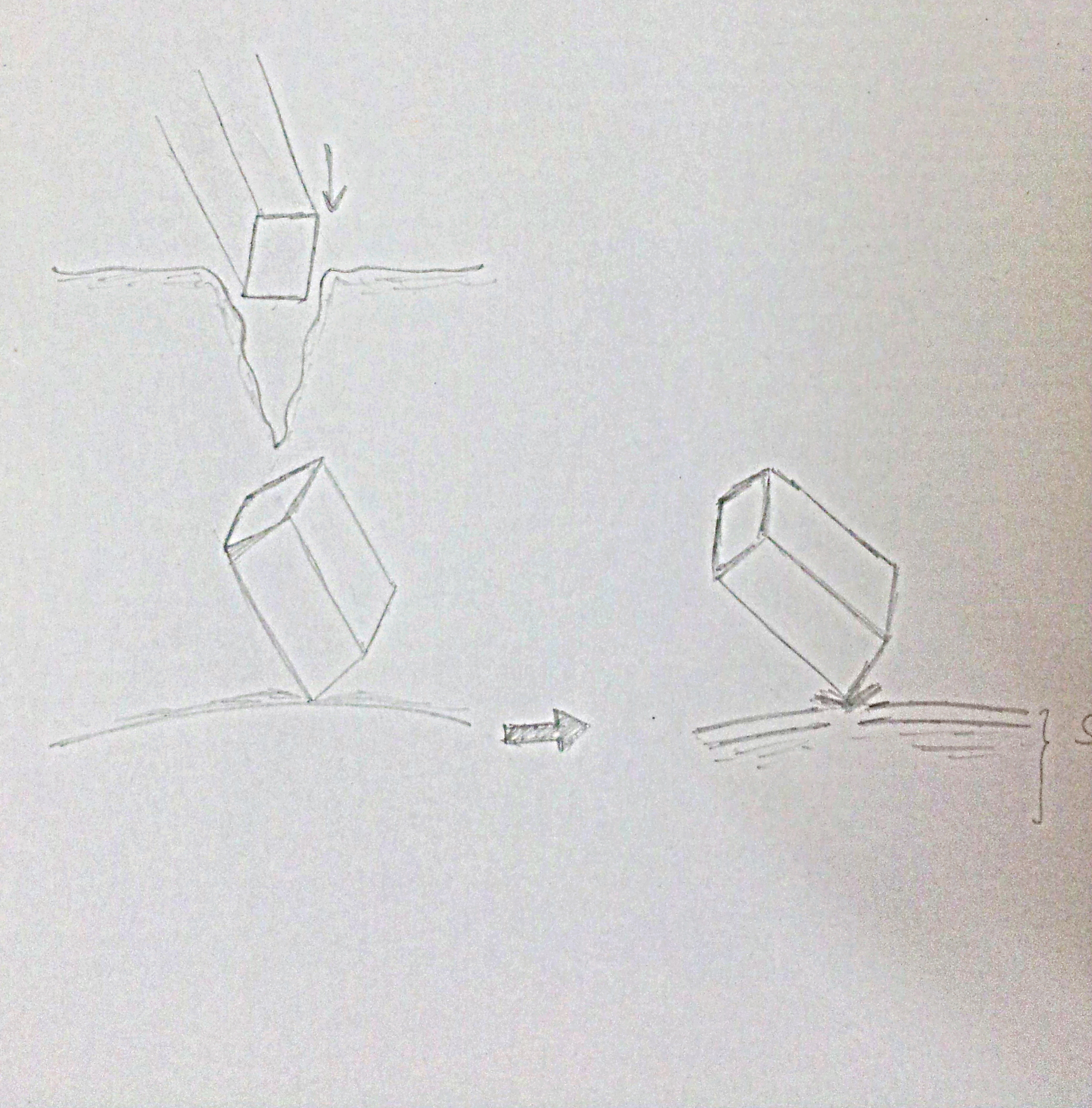 ਚਿੱਥੀਆਂ ਸੱਟਾਂ